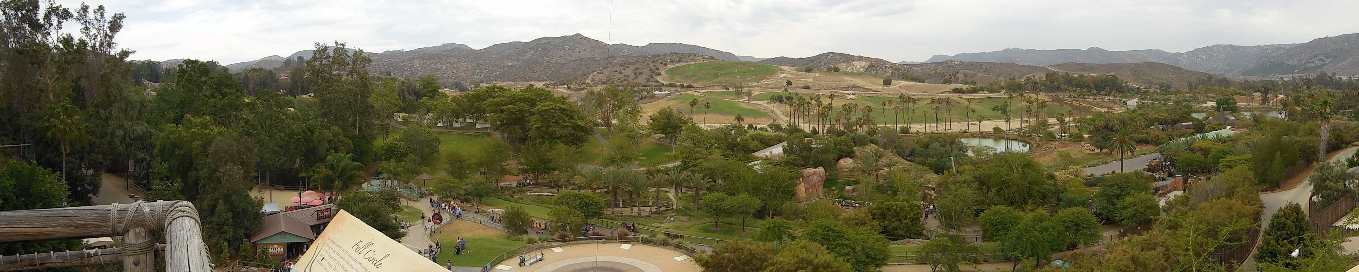 Panoramic view of a portion of the San Diego Zoo Safari Park, as seen from the Rift Sand Bar looking east on June 27, 2015.